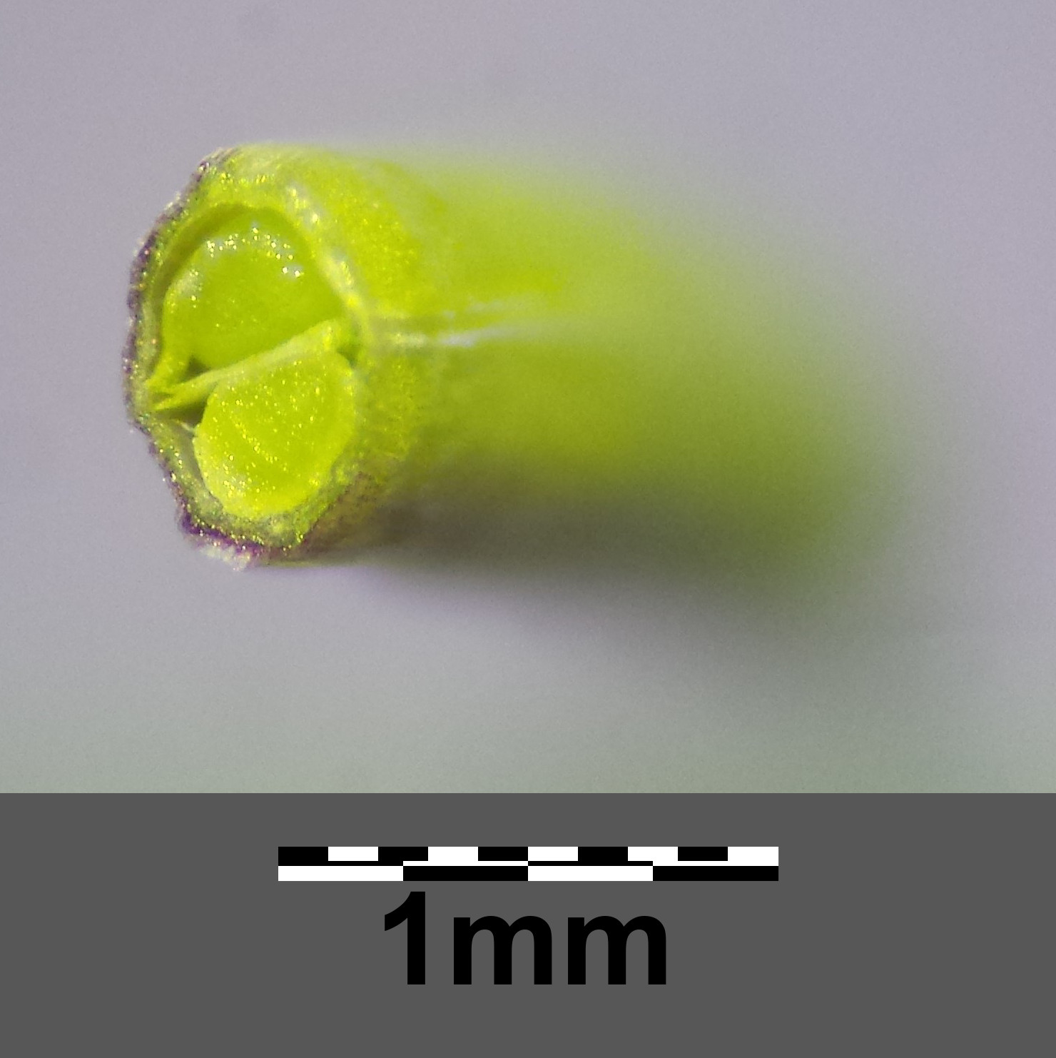 Cross section of silique Taxonym: Arabidopsis thaliana ss Fischer et al. EfÖLS 2008 ISBN 978-3-85474-187-9 Location: Neue Donau, Vienna-Floridsdorf - ca. 160 m a.s.l. Habitat: dry meadows